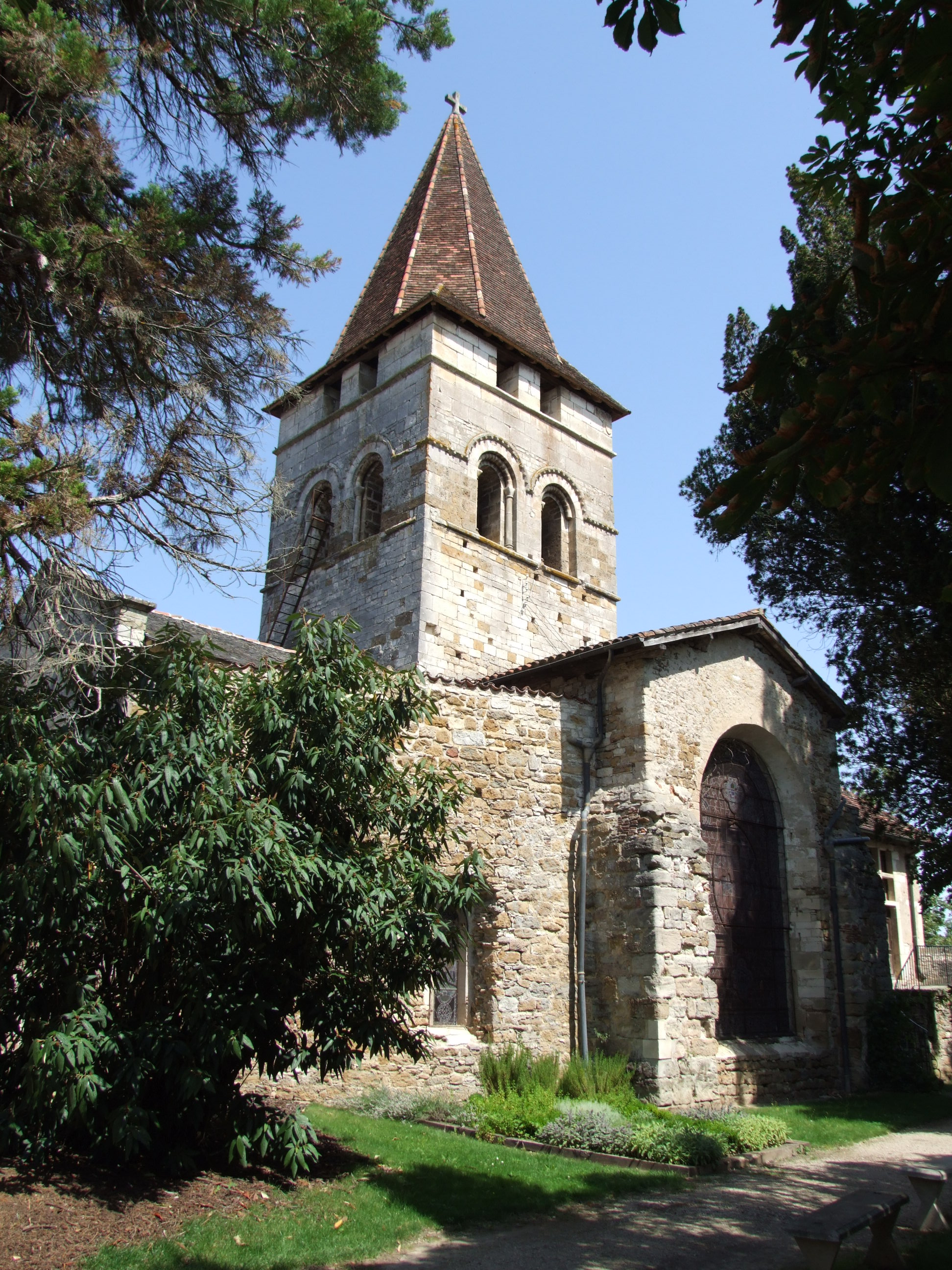 Carennac, Lot, FRANCE